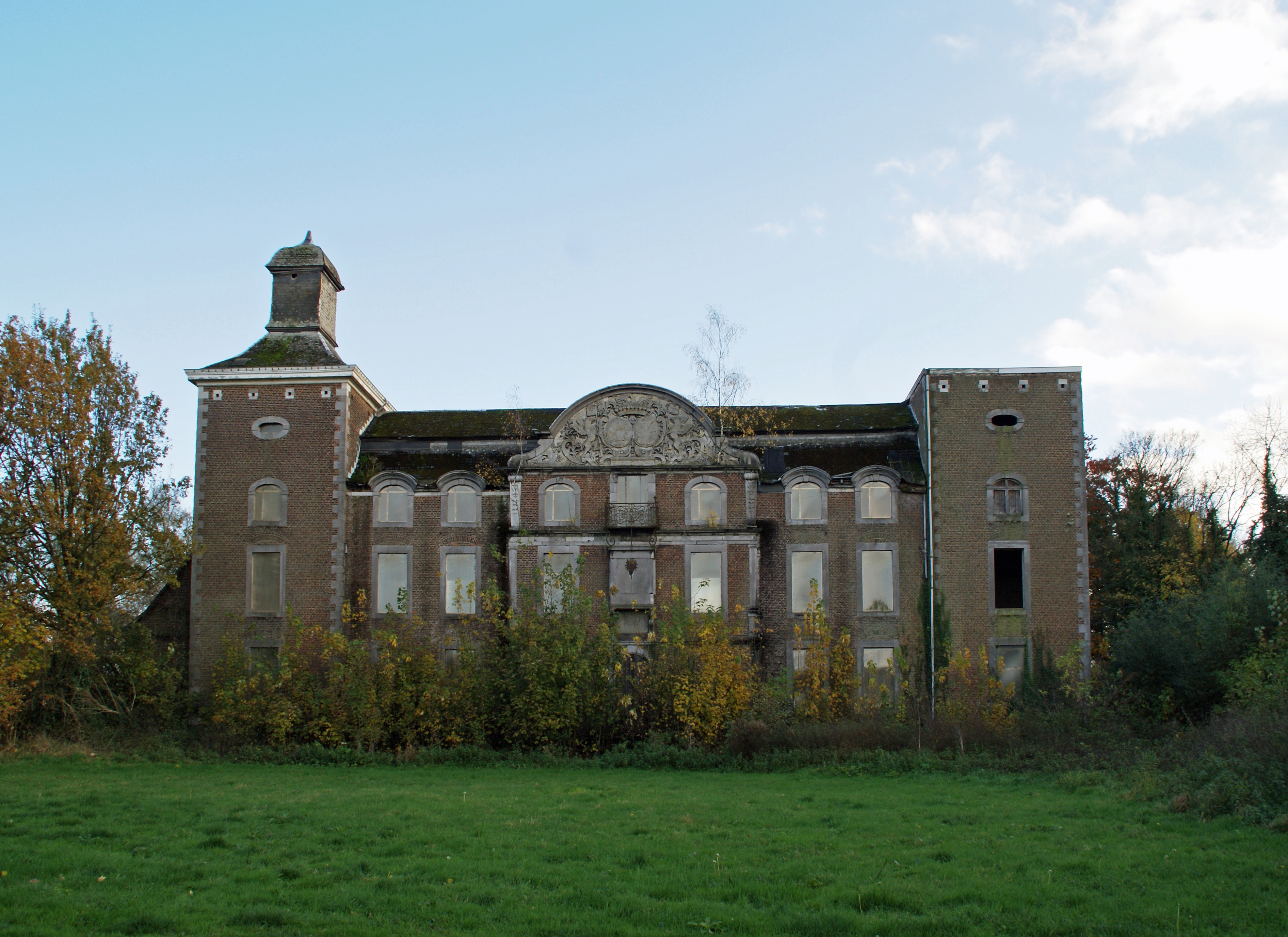 Saive (Belgium): Castle de Mean